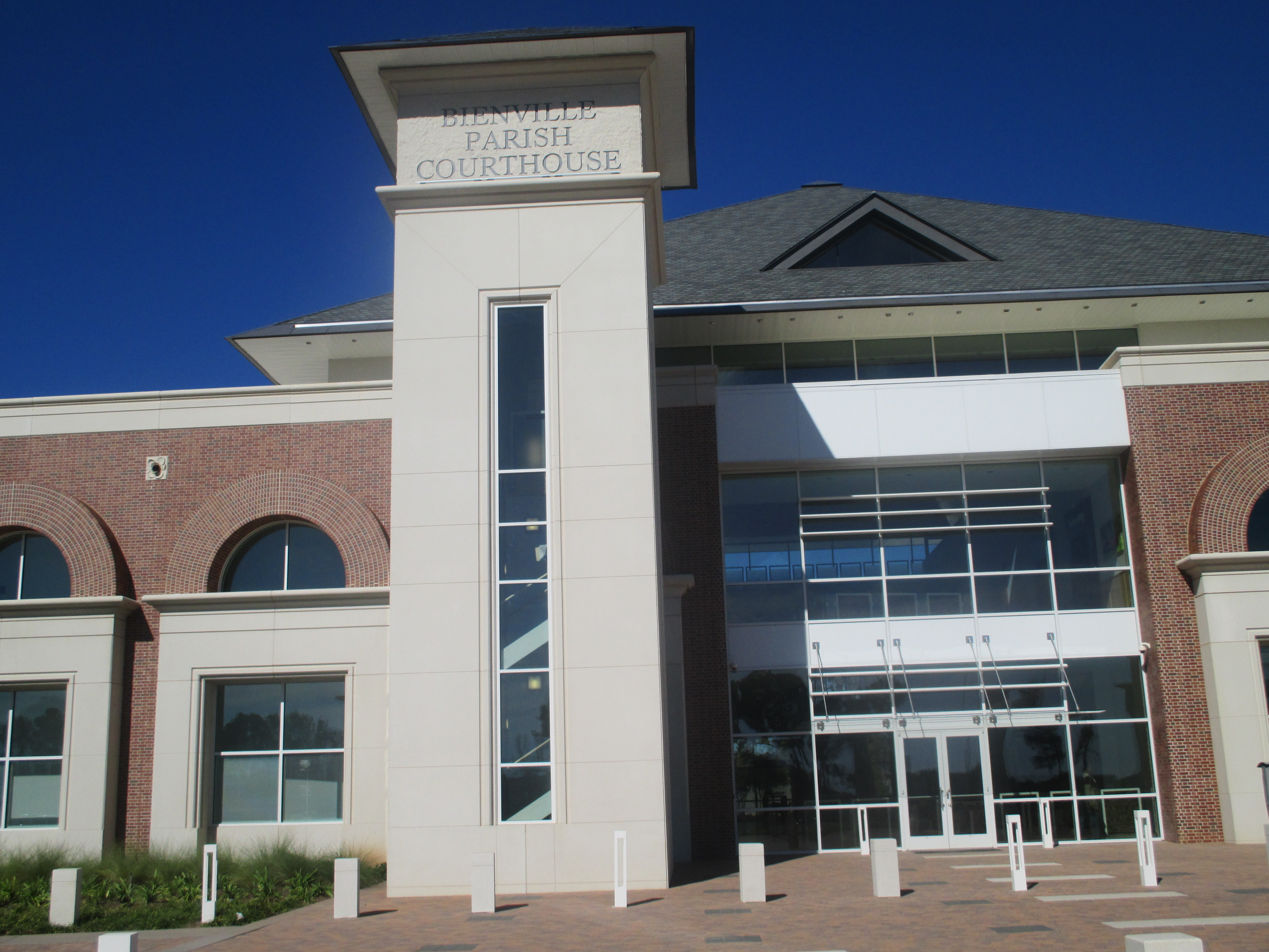 I took photo of new Bienville Parish Courthouse in Arcadia, LA, with Canon camera.